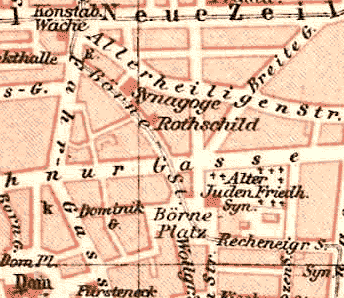 Frankfurt city map, 1893: The medieveal jewish quarter was demolished in 1887. The former Judengasse (Jewish Lane) became the new Börnestraße. Only the old main synagogue and the Rothschild family's house survived the redevelopment.